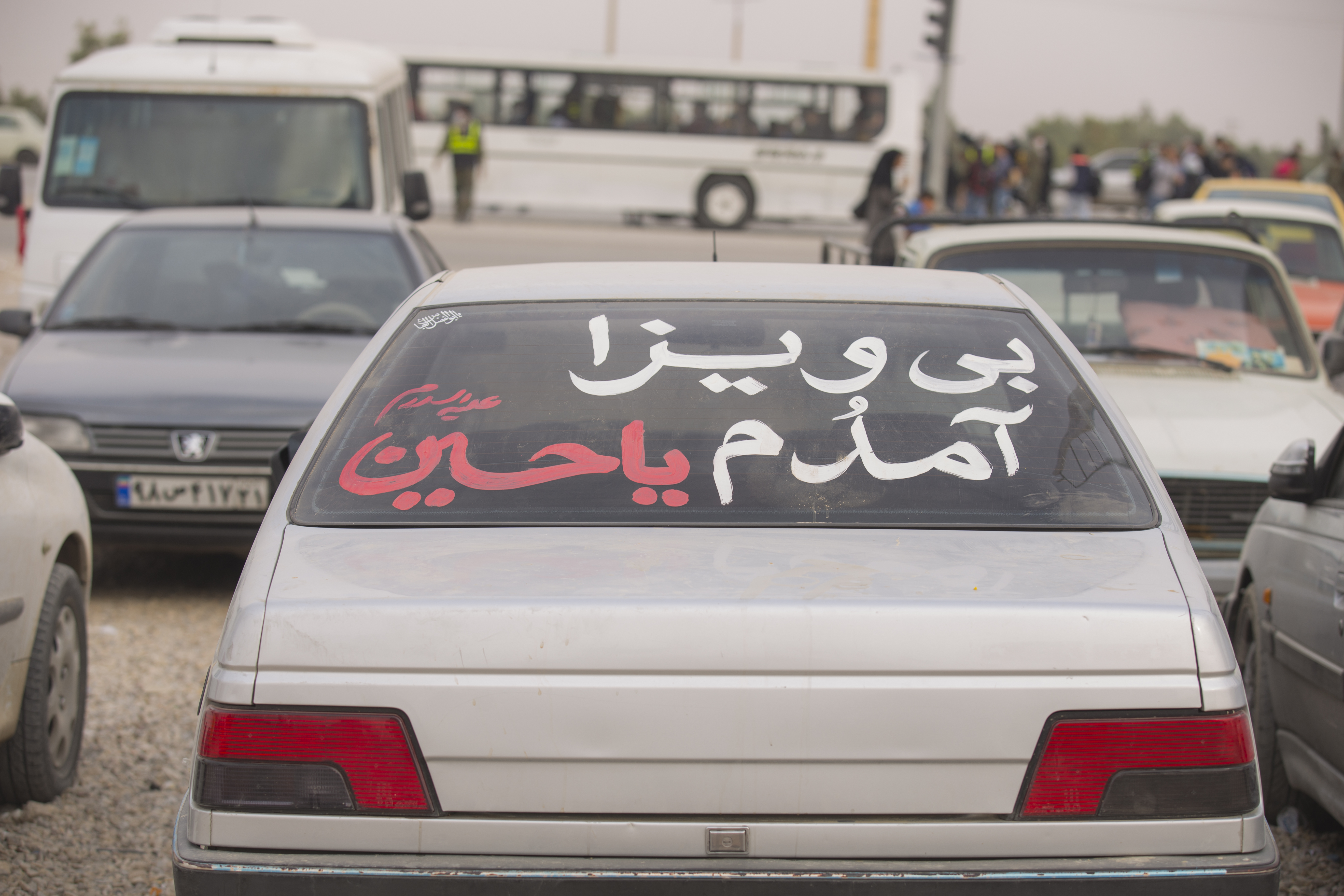 The Arba'een Pilgrimage is the world's largest public gathering that is held every year in Iraq. This Ziyarah (pilgrimage) is held at the end of the 40-day mourning period following Ashura, the religious ritual for the commemoration of the Prophet Mohammad's grandson Husayn ibn Ali's martyrdom in 680. Arba'een marks a "pivotal event in history" in which the pilgrims make their journey to Karbala on foot, where Husayn ibn Ali, the third Imam of Shia, and his companions were killed and beheaded by the army of Yazid I. Some of the pilgrims make their journey from cities as far as Basra, about 500 km away by road.